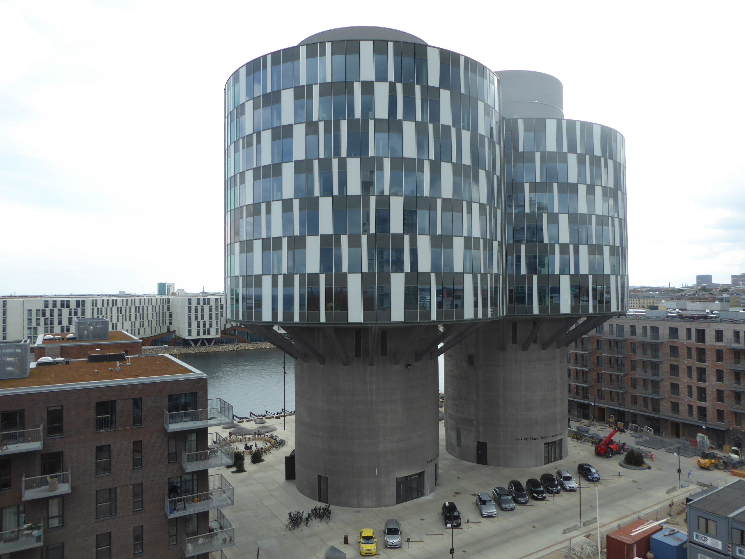 The high-rises Portland Towers seen from the multi-storey car park Lüders in Nordhavn in Copenhagen.